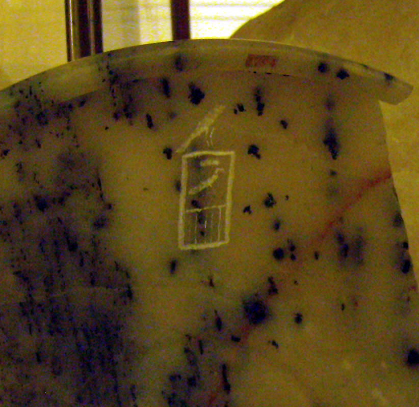 The name of the Egyptian king Khaba on a stone vessel in the Petrie Museum (London)